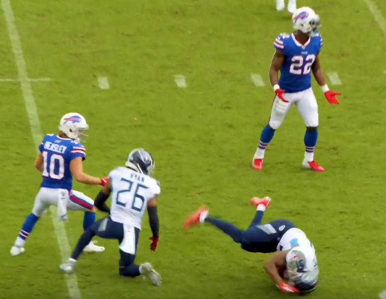 Cole Beasley 2019. Image from video Kevin Byard's INT vs. Bills | Beneath the Surface, ~ 02:19